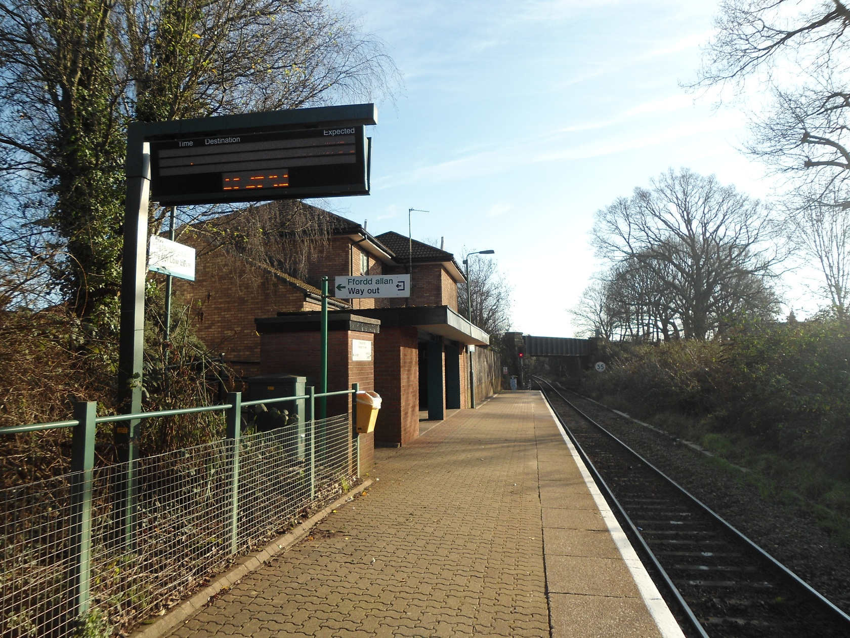 View of Heath Low Level railway station, Cardiff, looking up the line to Cardiff city centre